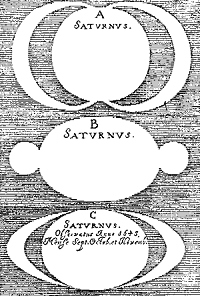 Saturn with it's rings. Image from Hevelius' Selenographia, sive Lunae descriptio